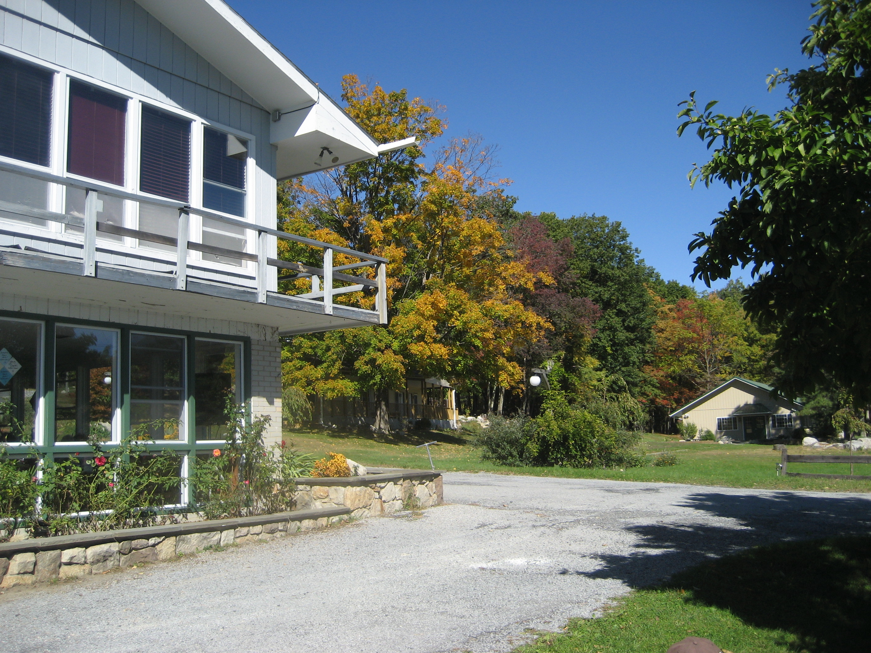 In front of the dining hall, with the Sister's Meditation Hall in the distance